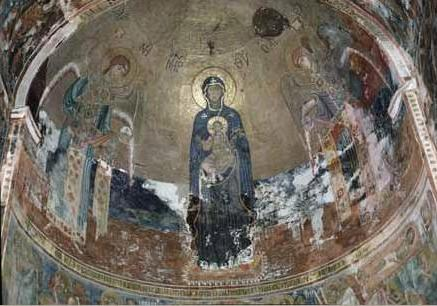 Gelati Mother of God Church (Georgia). An altar conch mosaic. 1125-1130. "The Glory of the Theotokos". The Virgin surrounded by the Archangels Michael and Gabriel.